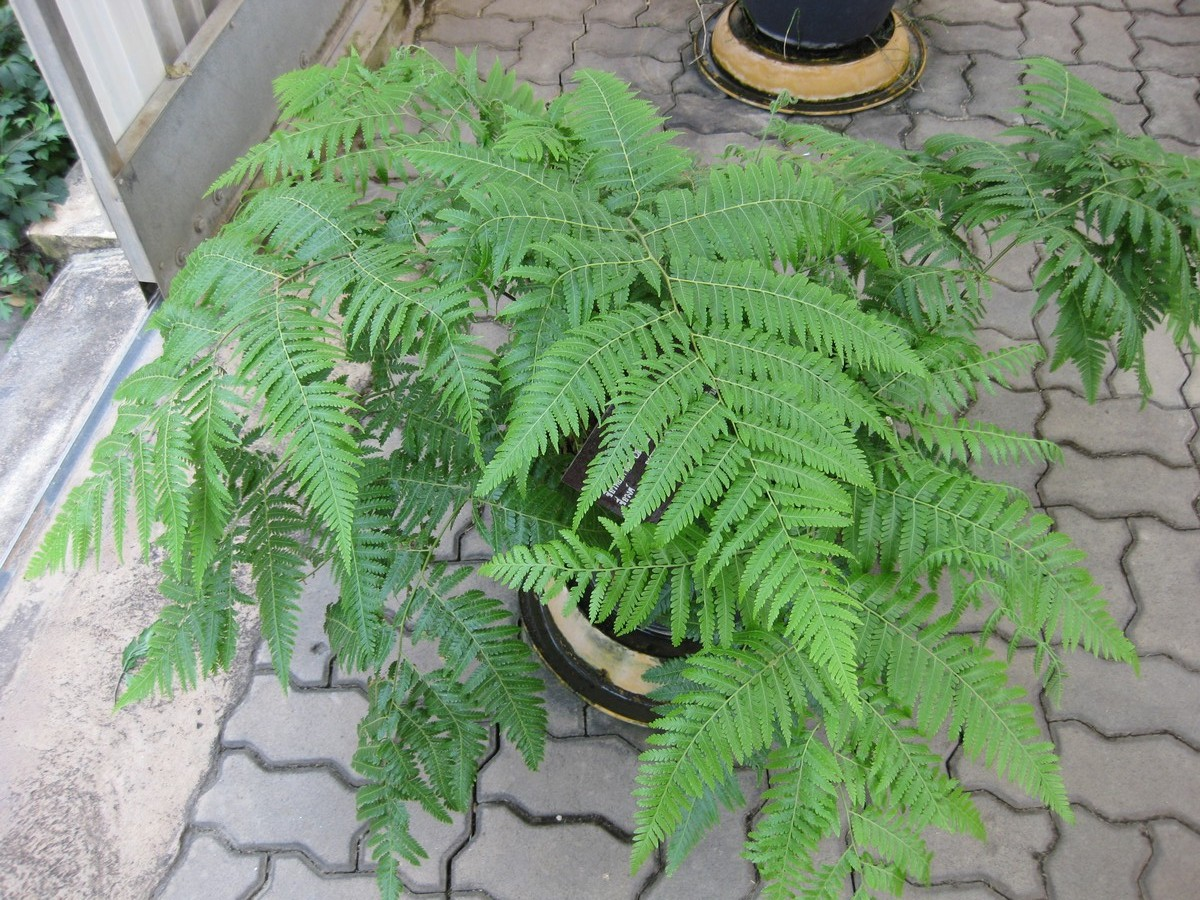 Cibotium barometz (L.) J. Sm. Photographed at the Queen Sirikit Botanic Garden (Chiang Mai Province, Thailand) in March